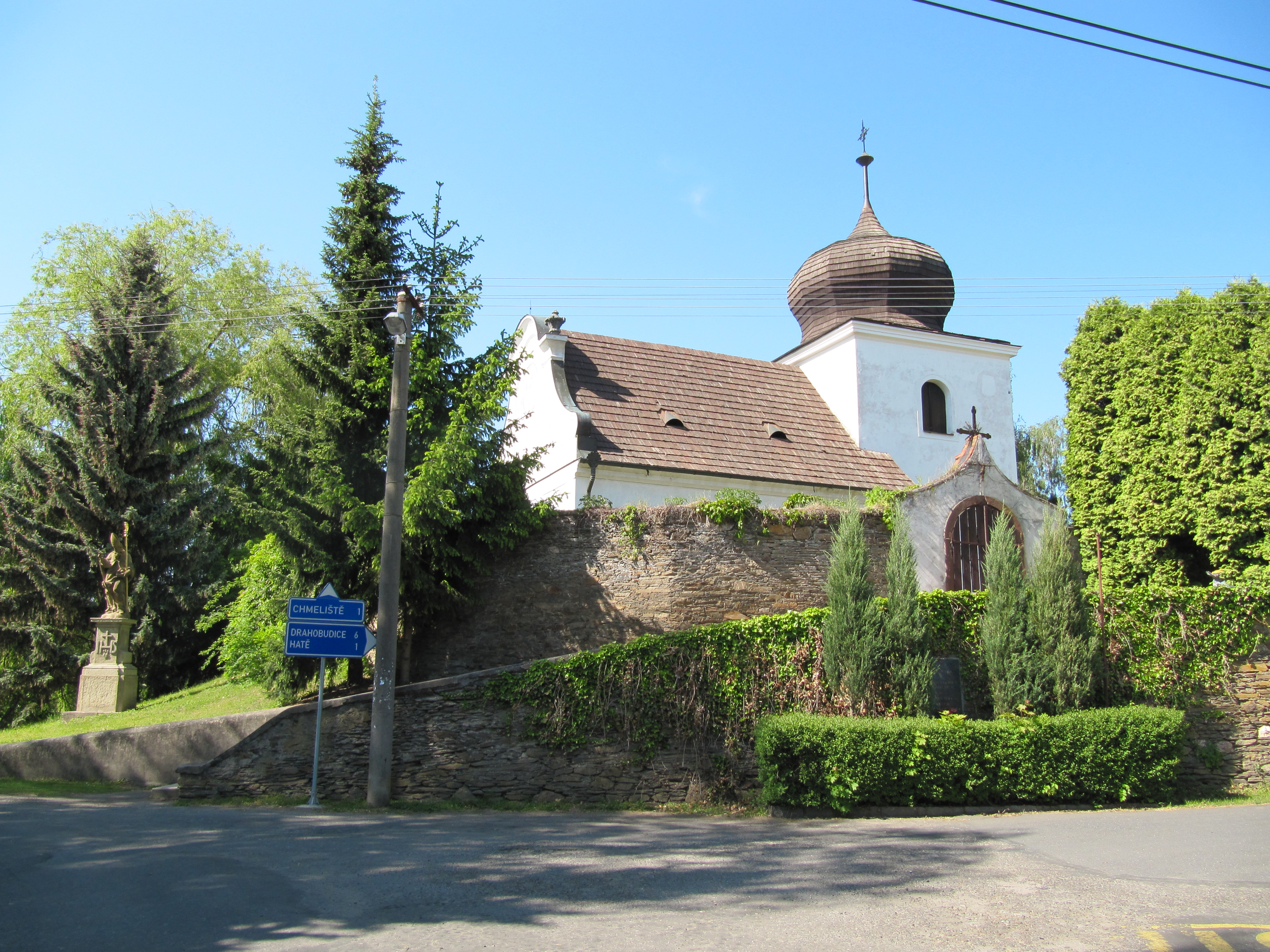 Vavřinec in Kutná Hora District, Czech Republic, part Žíšov. Statue and church of St. Nicolas.